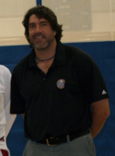 Charlie George (third from left) was the winner of Buckley's Biggest Loser, after dropping more than 9.2 percent of his body fat. Pictured (from left) are Virginia Harris, from the Buckley fitness center; Ervin Johnson of the Milwaukee Bucks; Mr. George; and former Denver Nuggets players Walter Davis and Mark Randall. (Courtesy photo)